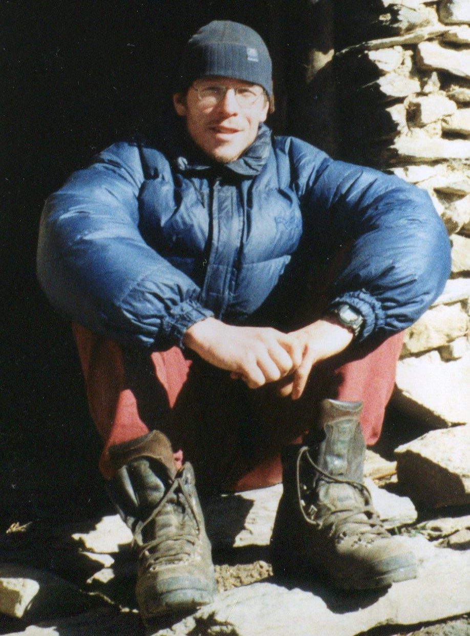 Kamil Čermák, Czech mountaneer and writer in Nepal, Dec 1998